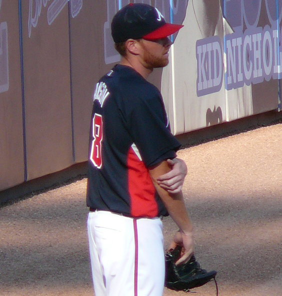 If used somewhere other than Wikipedia, Nelson, by name. 03:54, 20 September 2009 . . Chrisjnelson . . 564×592 (298 KB)